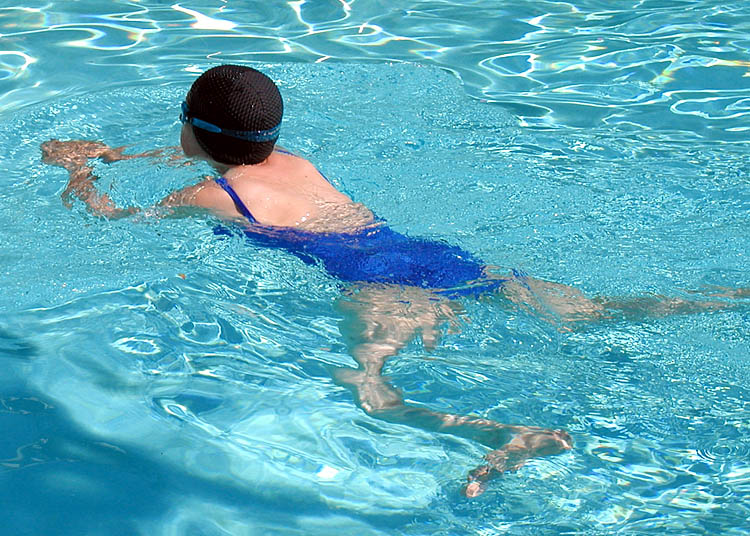 A breaststroke swimmer, in a hotel swimming pool at Brixham, Devon, England. Taken by Adrian Pingstone in July 2003 and released to the public domain.